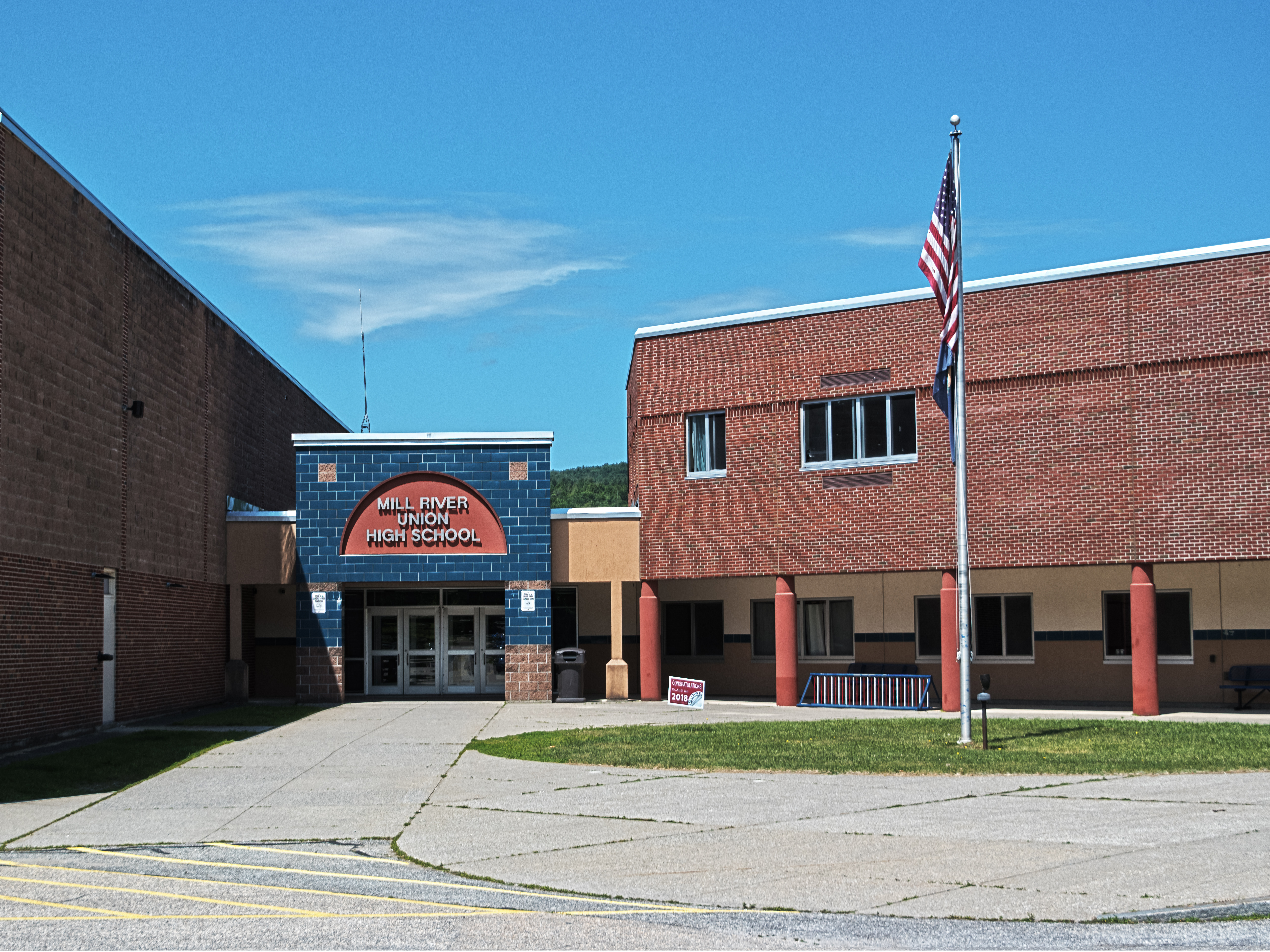 Front entrance of Mill River Union High School